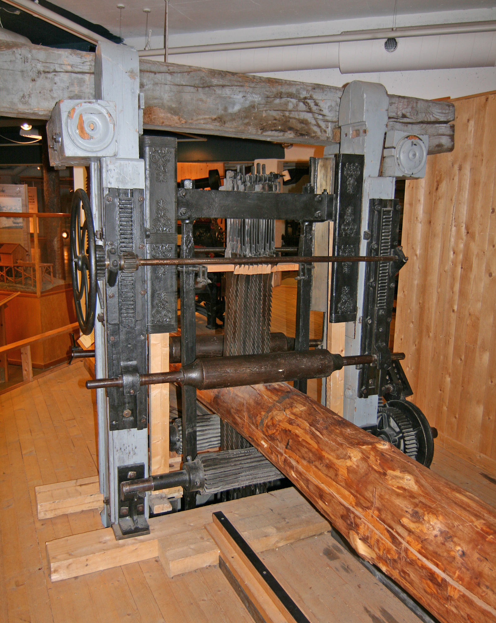 Gangsaw at Norwegian Technology Museum, Oslo. In operation at Sanne & Solli Bruk, Norway, from 1860 until ca. 1925. It is probably made at Myrens Verksted, Christiania (Oslo).